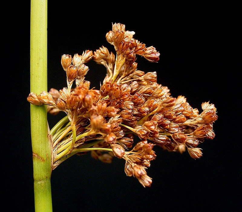 Juncus effusus